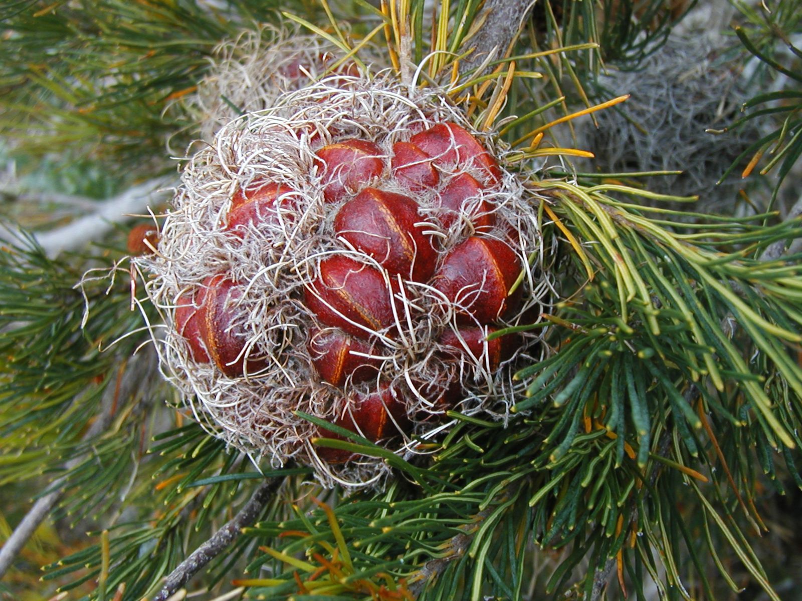 Red follicles on infructescence of Banksia sphaerocarpa sphaerocarpa, cultivated at the Banksia Farm, Mt Barker